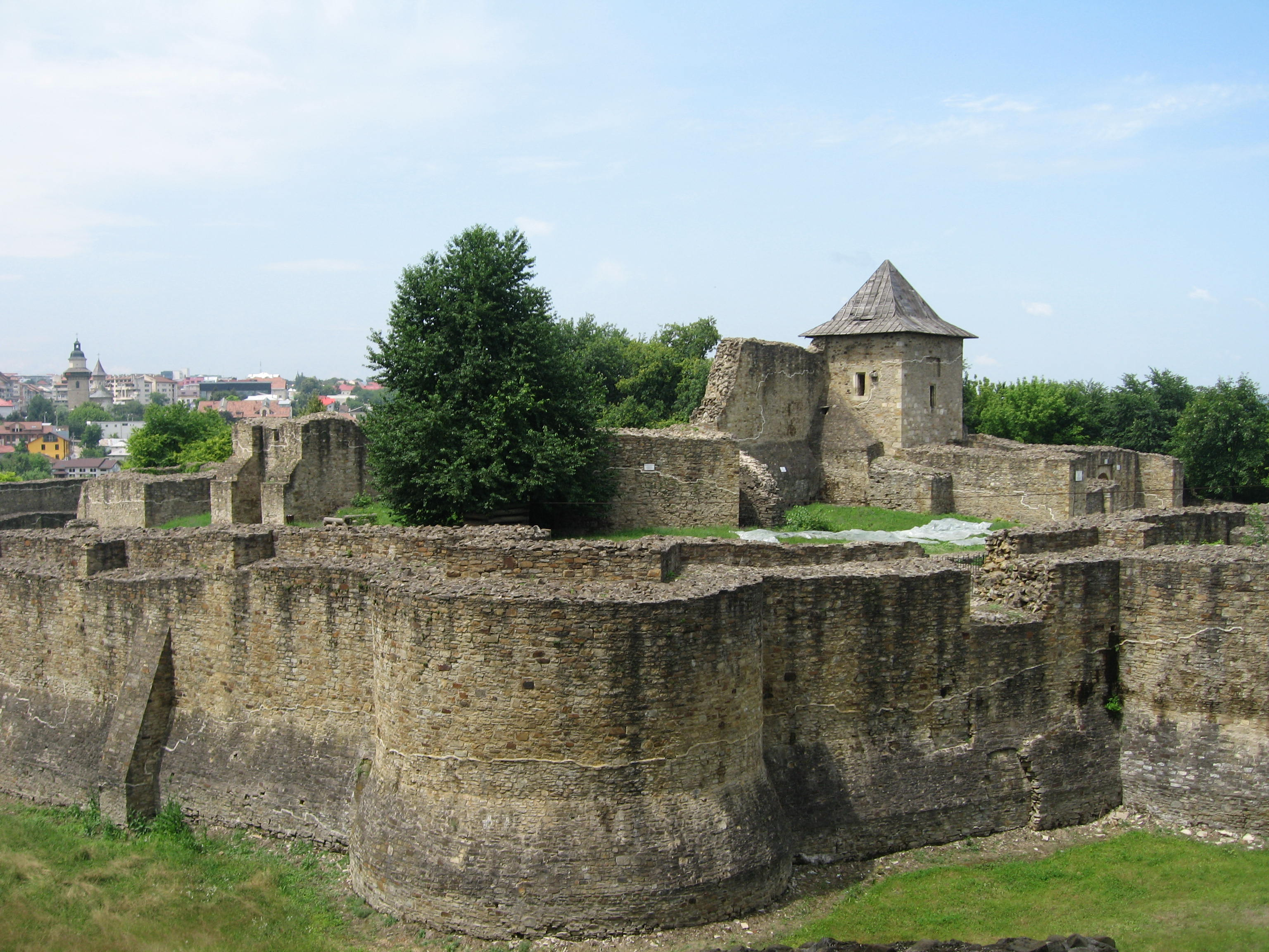 Seat Fortress of Suceava – the center part.